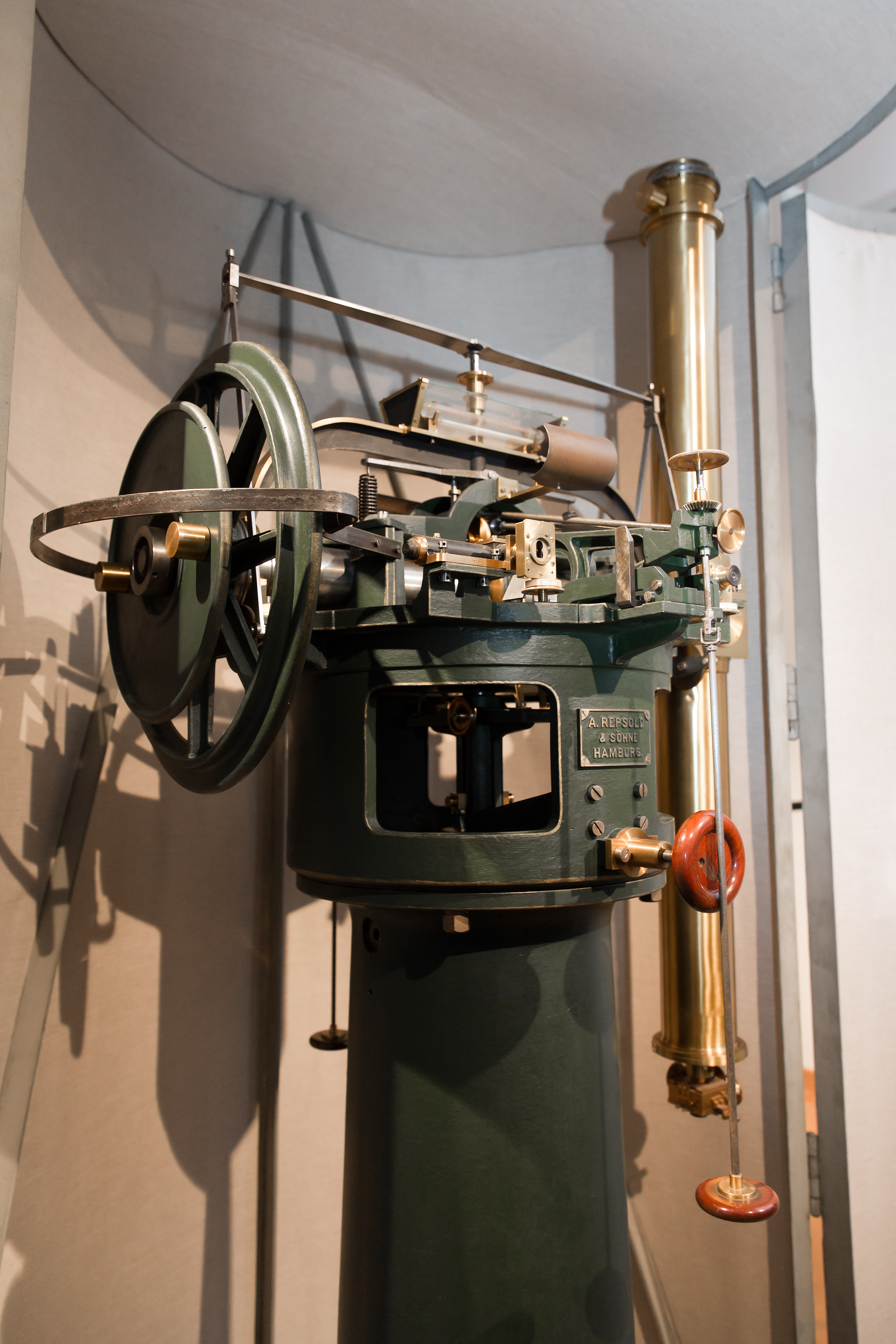 Kuffner Observatory, Vienna, Austria - Vertical circle